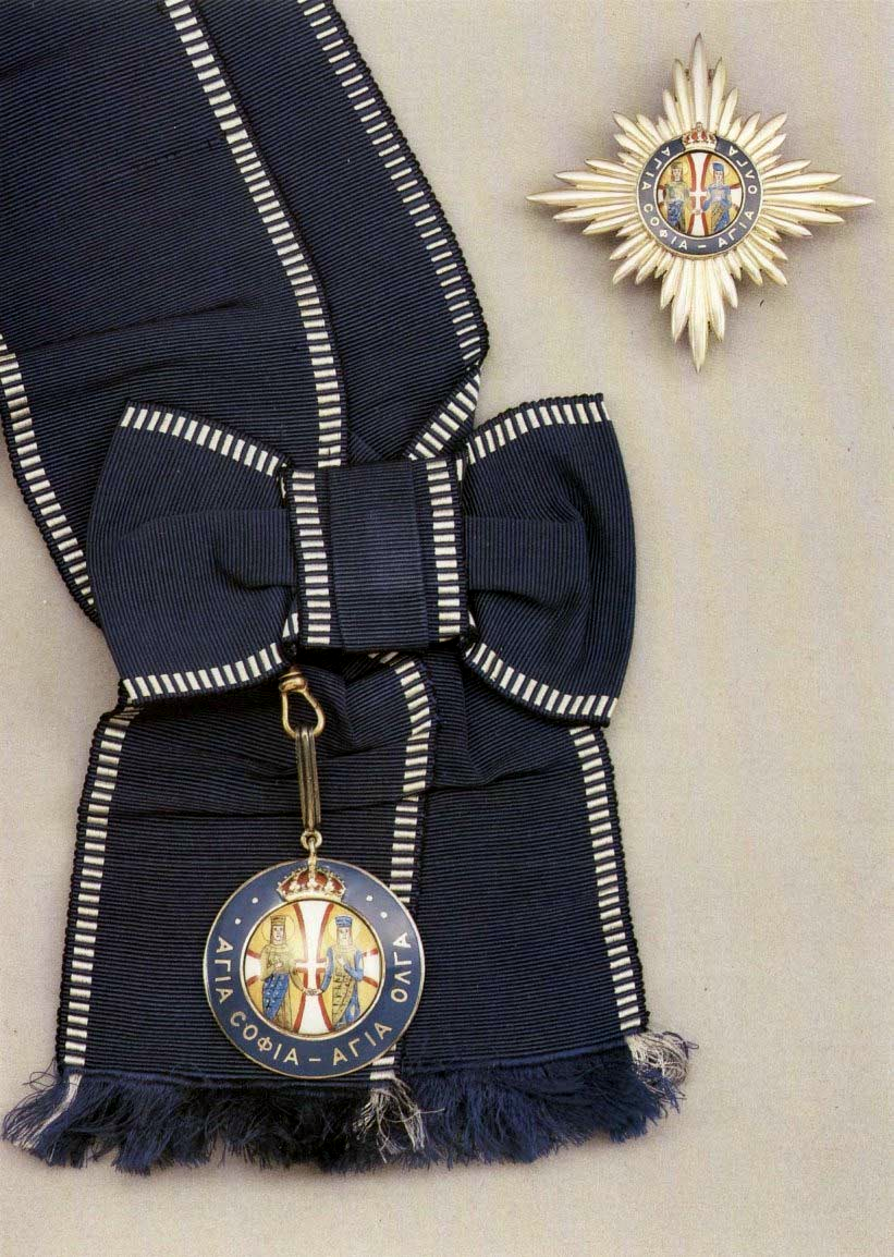 Star and Grand Cross of the Greek Royal Order of Saints Olga and Sophia